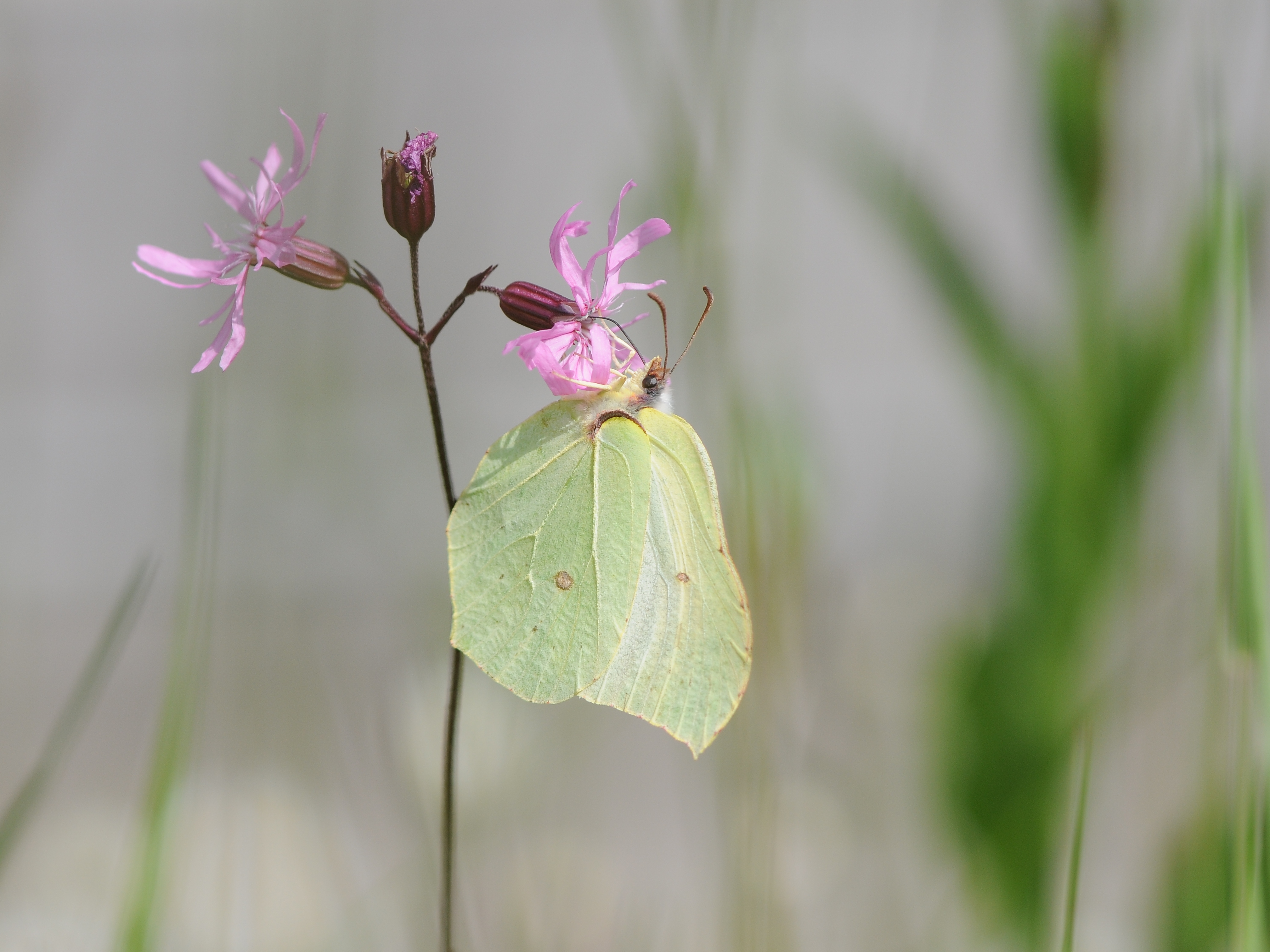 The Common Brimstone (Gonepteryx rhamni) is a butterfly of the Pieridae family. It lives in Europe, North Africa and Asia; across much of its range, it is the only species of its genus, and is therefore simply known locally as the brimstone.